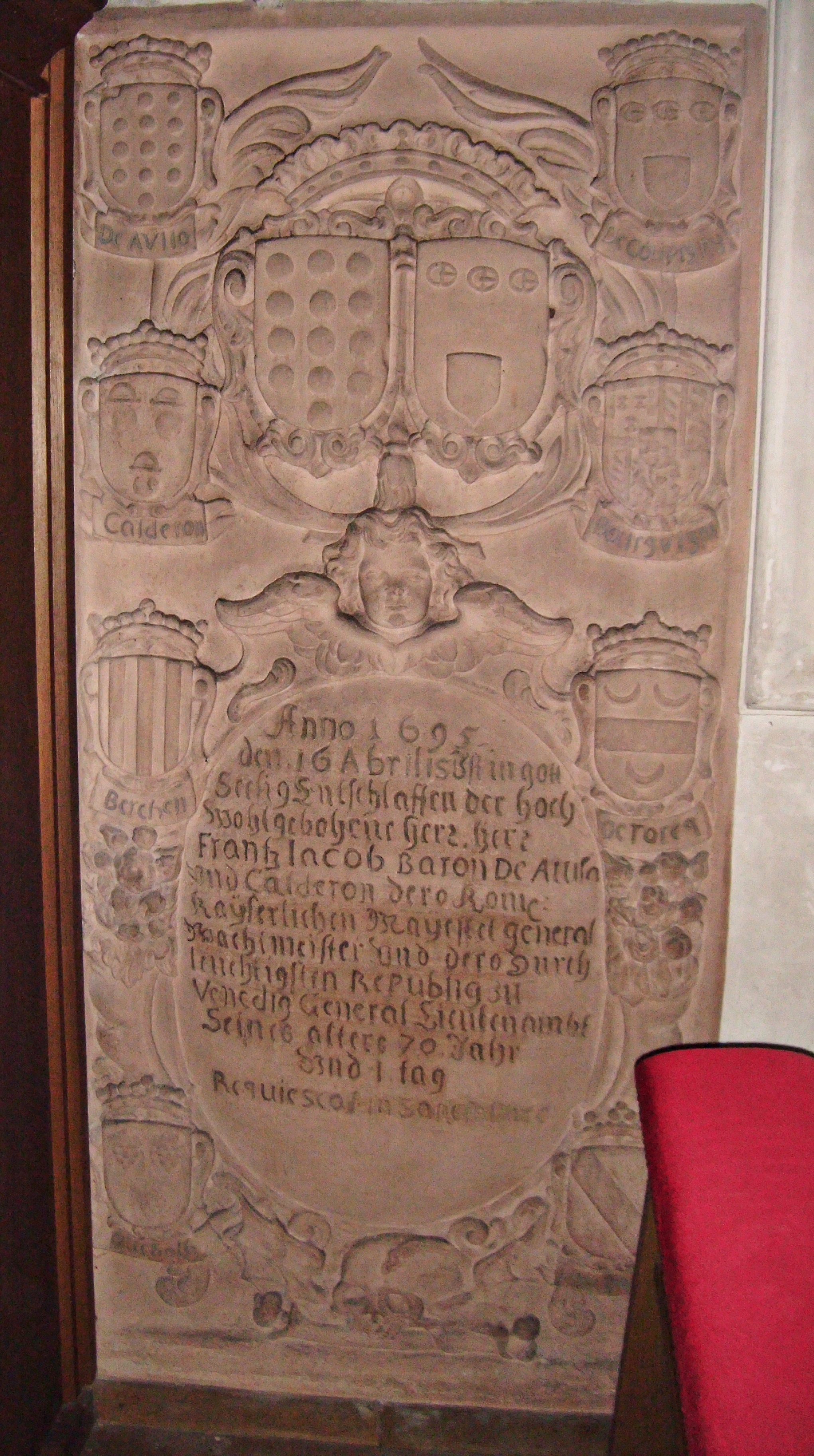 General Jakob Alfons Franz Calderon d’Avila (1625-1695), Grabplatte, Kloster Engelberg, Großheubach